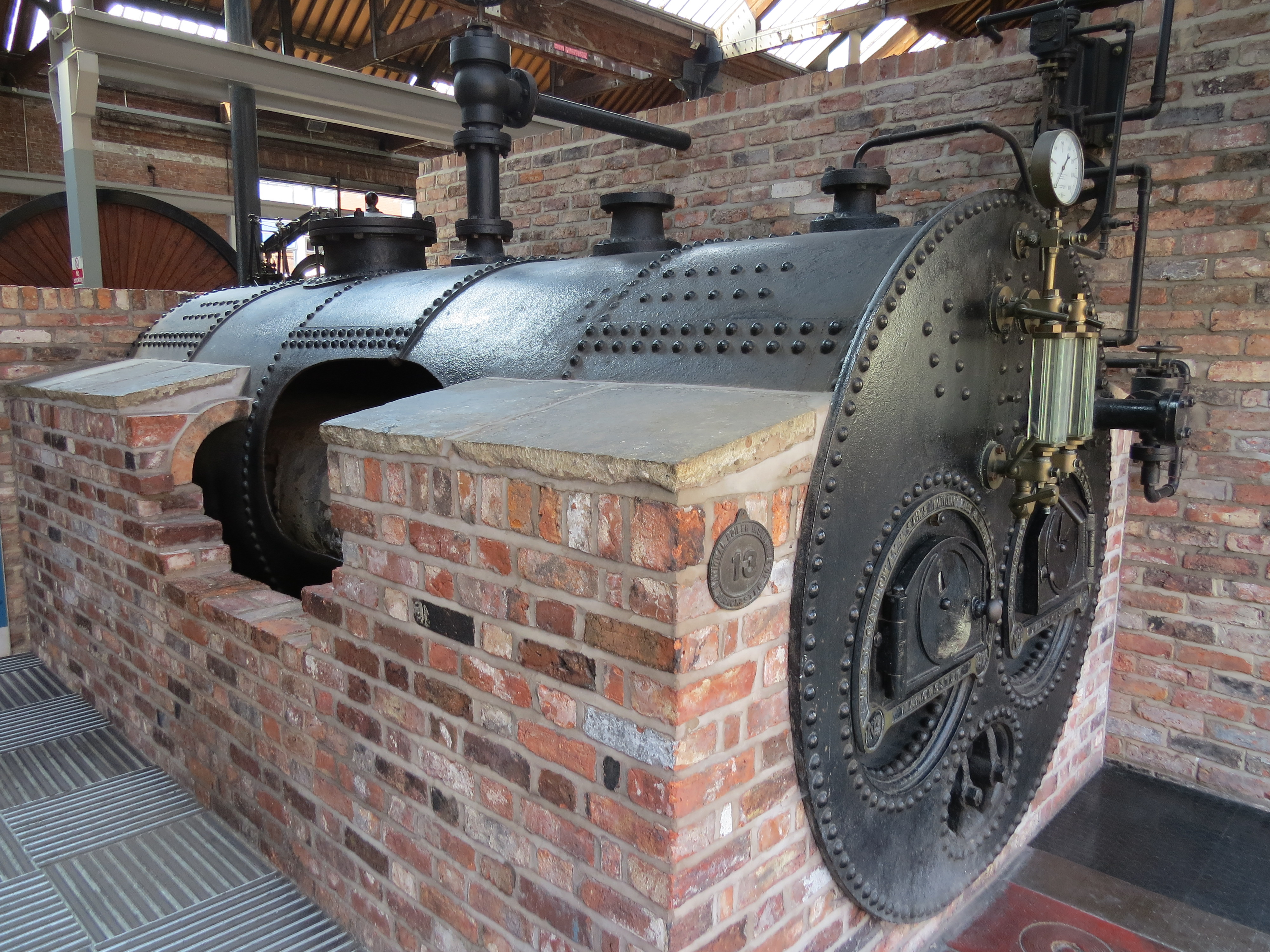 This is an example of a Lancashire Boiler at The Museum of Science and Industry, Manchester, UK